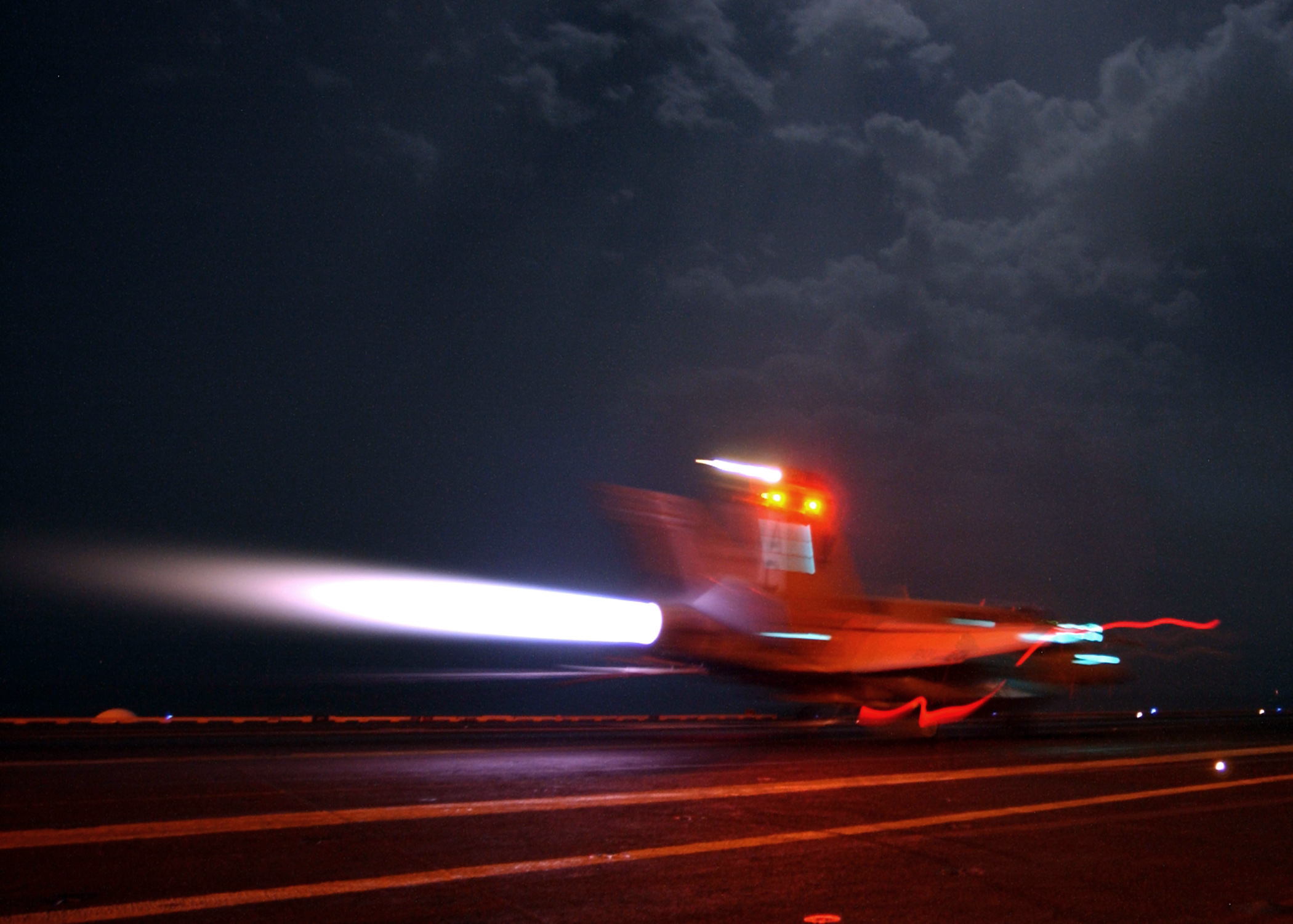 An F/A-18A Hornet assigned to the “Silver Eagles” of Marine Fighter Attack Squadron One One Five (VMFA-115), lights its afterburners to maintain full “military” power immediately following a night arrested landing aboard the Nimitz-class aircraft carrier USS Harry S. Truman (CVN 75).